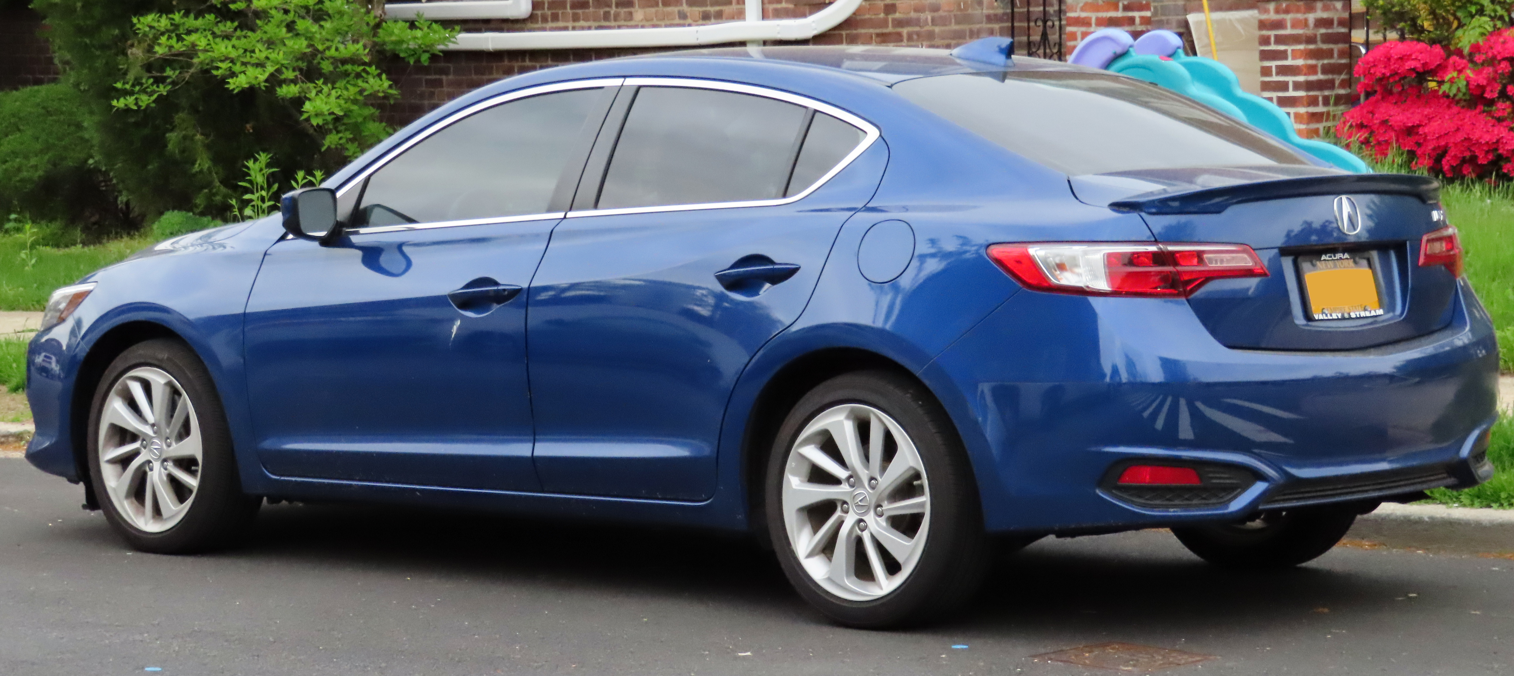 A 2017 Acura ILX photographed in Queens, New York, USA